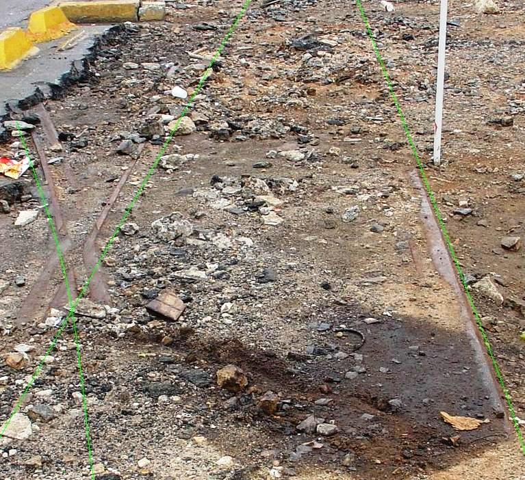 old trolley terminal in Moema